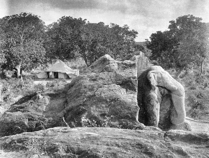 Dhauli Ashoka inscription Puri District India. The front of the stone (r) is engraved into the shape of an elephant.